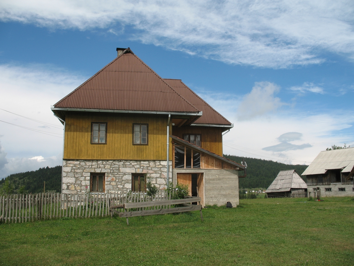 Kamena Gora in Prijepolje Municipality,Serbia.